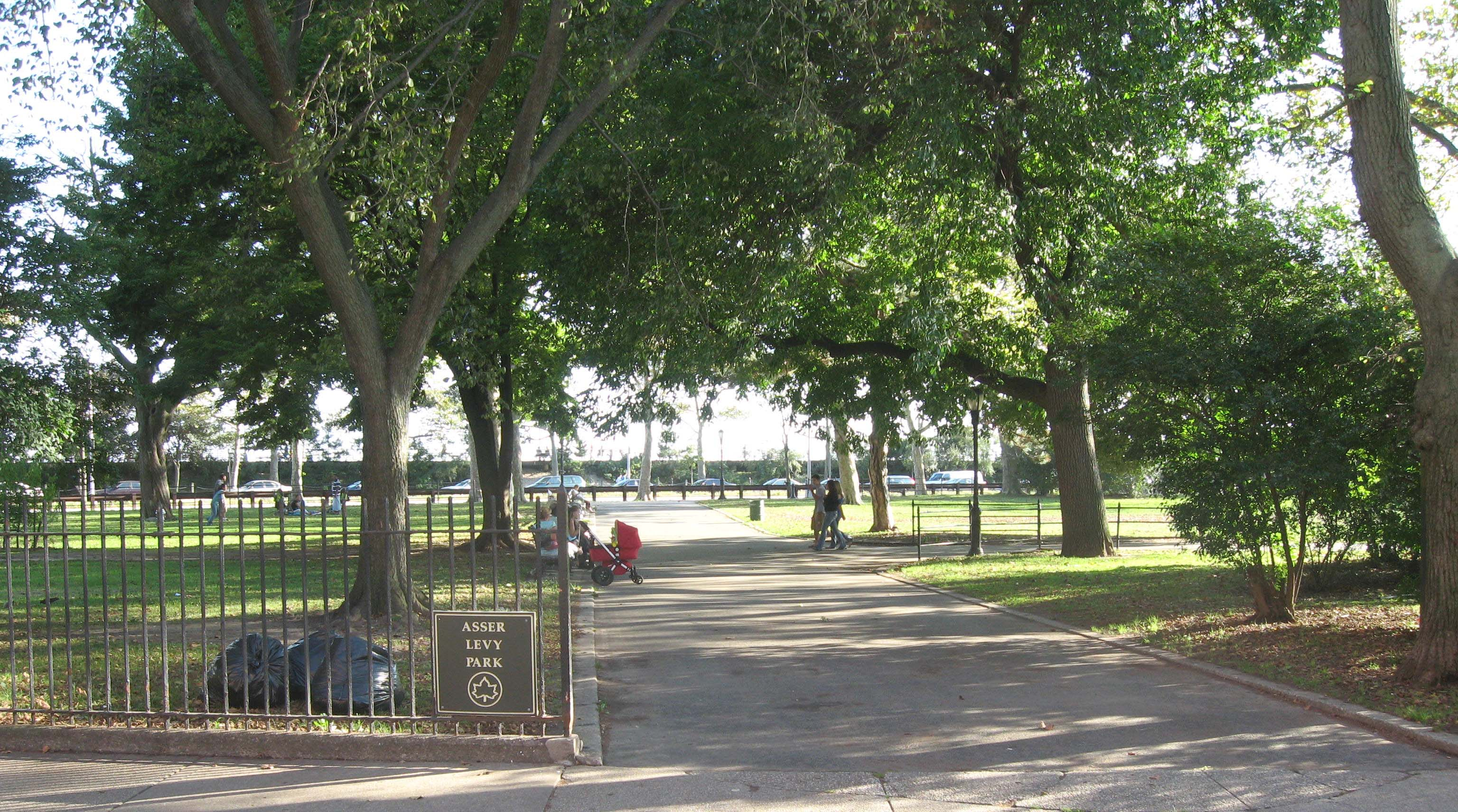 Looking east from West 5th Street into Asher Levy / Seaside Park in eastern Coney Island on a sunny afternoon.